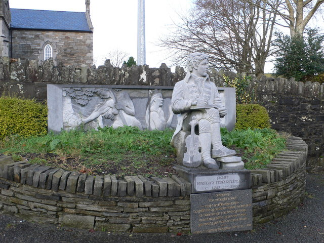 Sculpture of Brian Merriman, Ennistymon The sculpture is outside St Andrew's Church, which is now a cultural centre, a "House of Music". Brian Merriman, 1747-1805, was an Irish language poet and teacher. His single surviving work of substance is regarded as the greatest comic poem in the history of Irish literature. He was born in Ennistymon.